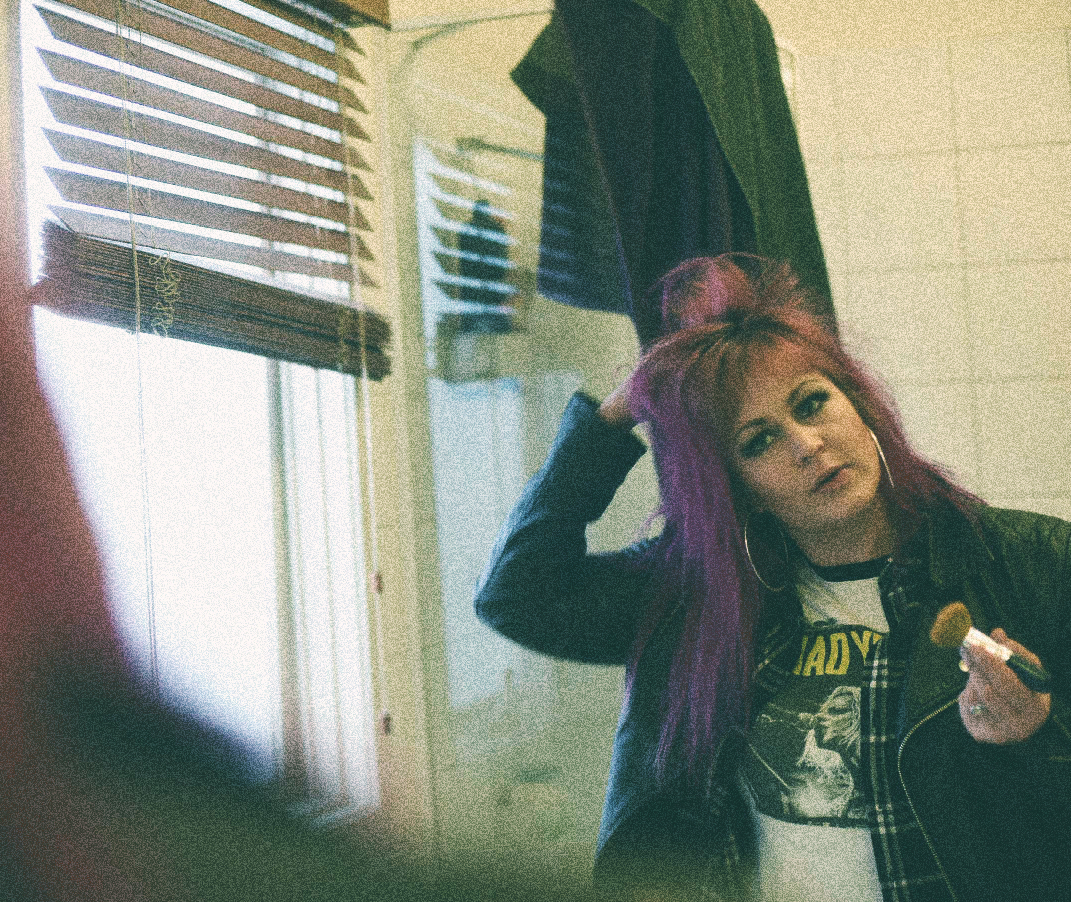 Photo by Kellie Fernando